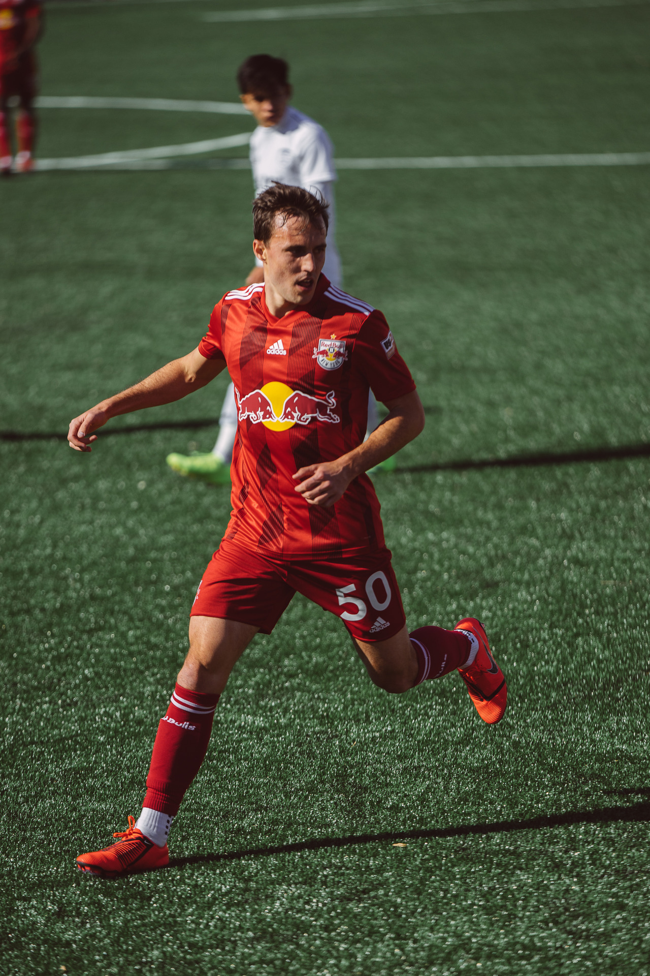 Jared Stroud of RBNY fights for a ball.